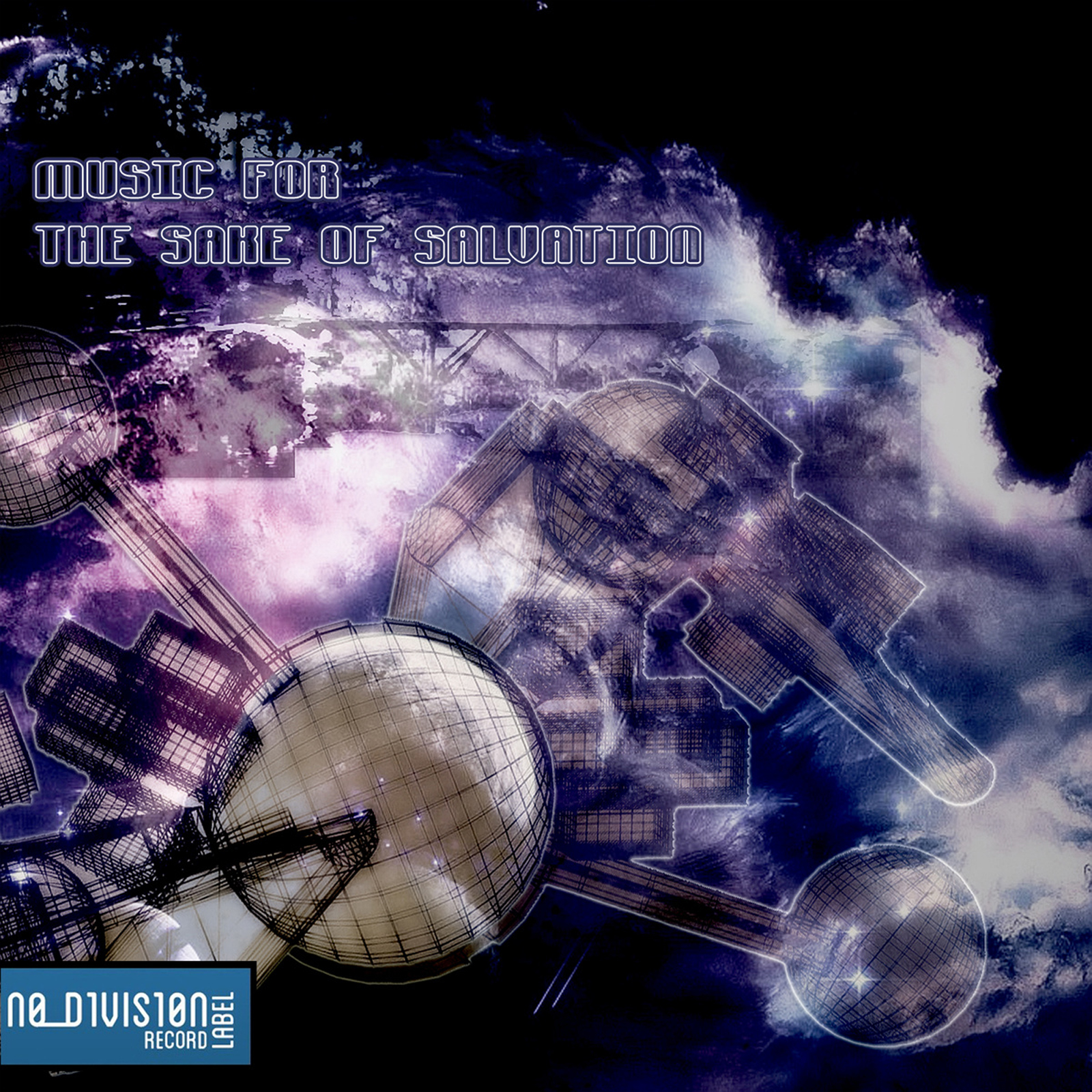 Various Artists - Music for the sake of salvation